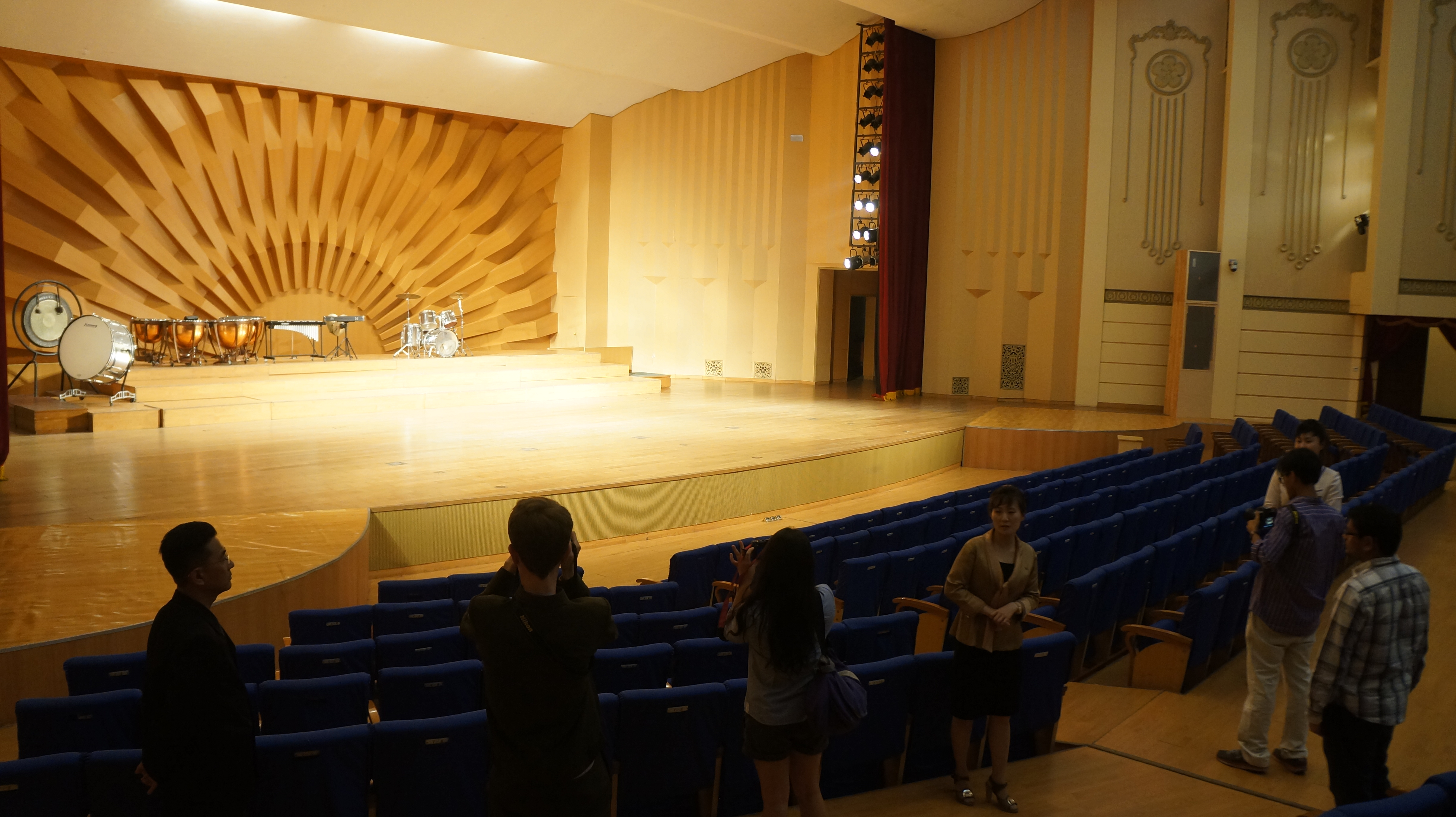 Pyongyang Conservatory of Music